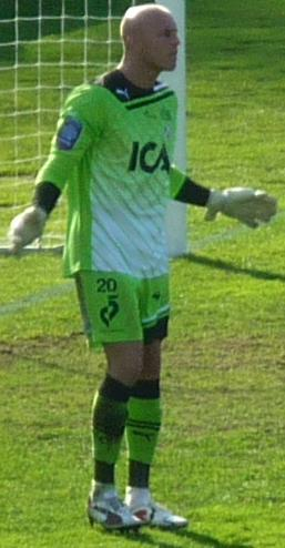 Nauzet Perez in 2011